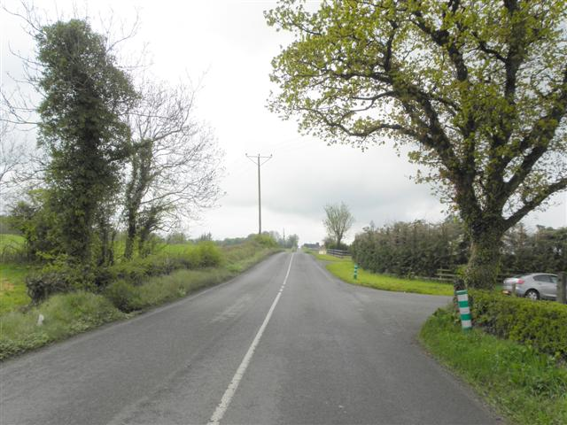 Road at Agharaskilly townland, Tomregan, County Cavan, Ireland, heading SSW.